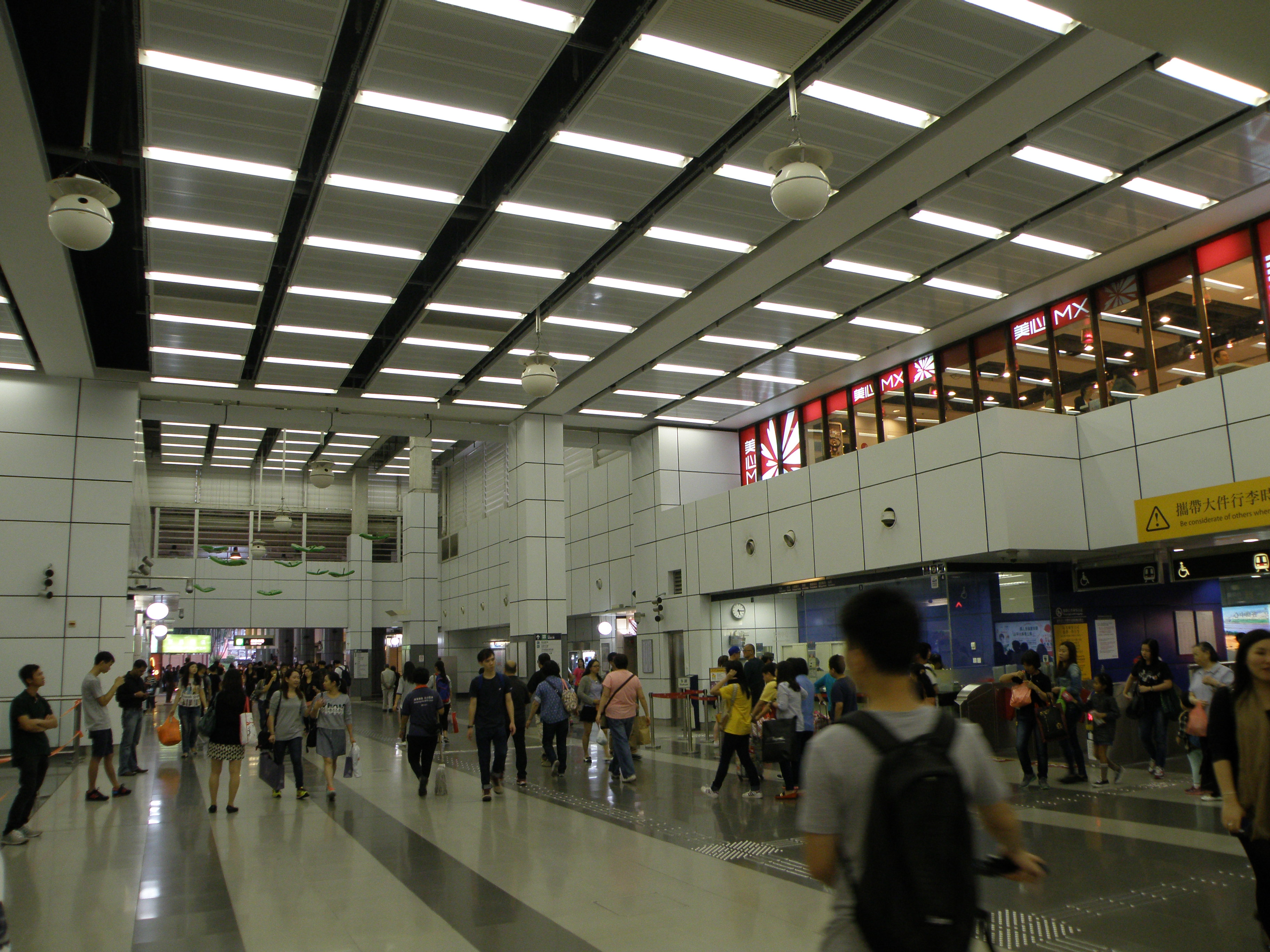 MTR Tai Po Market station concourse